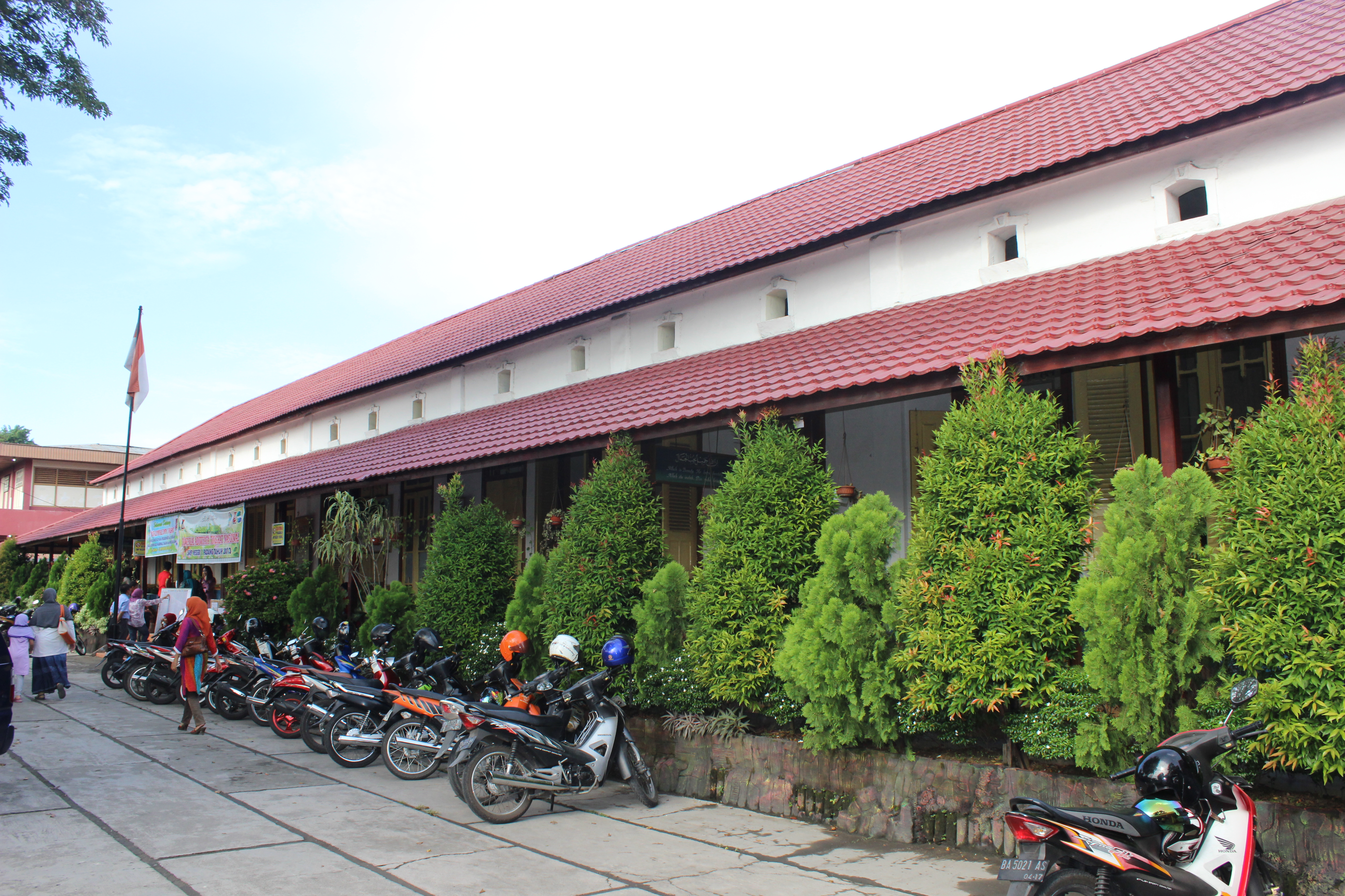 SMP 1 Padang